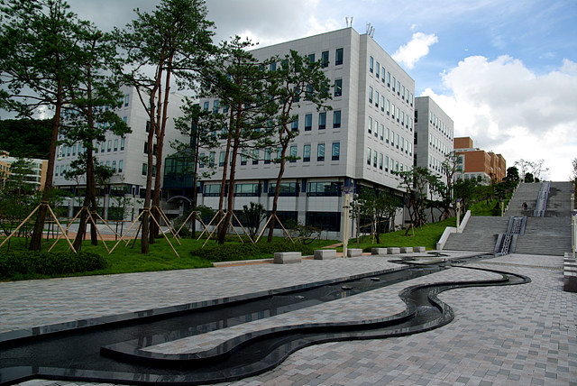 The Central Library of Toegye Memorial and Stairs Deulsaemro(Jukjeon)